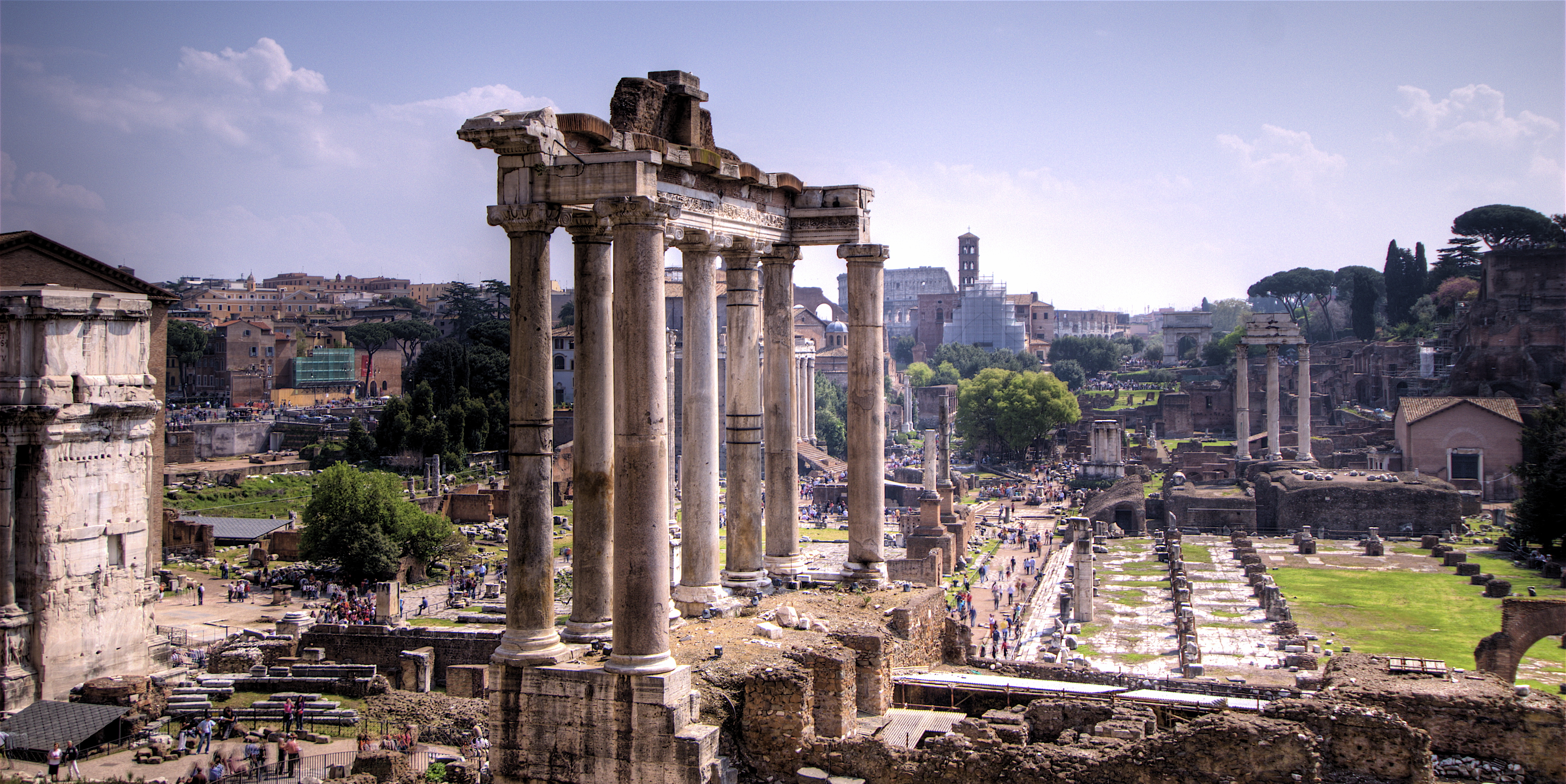 Forum Romanum was bustling with visitors. April 2007.